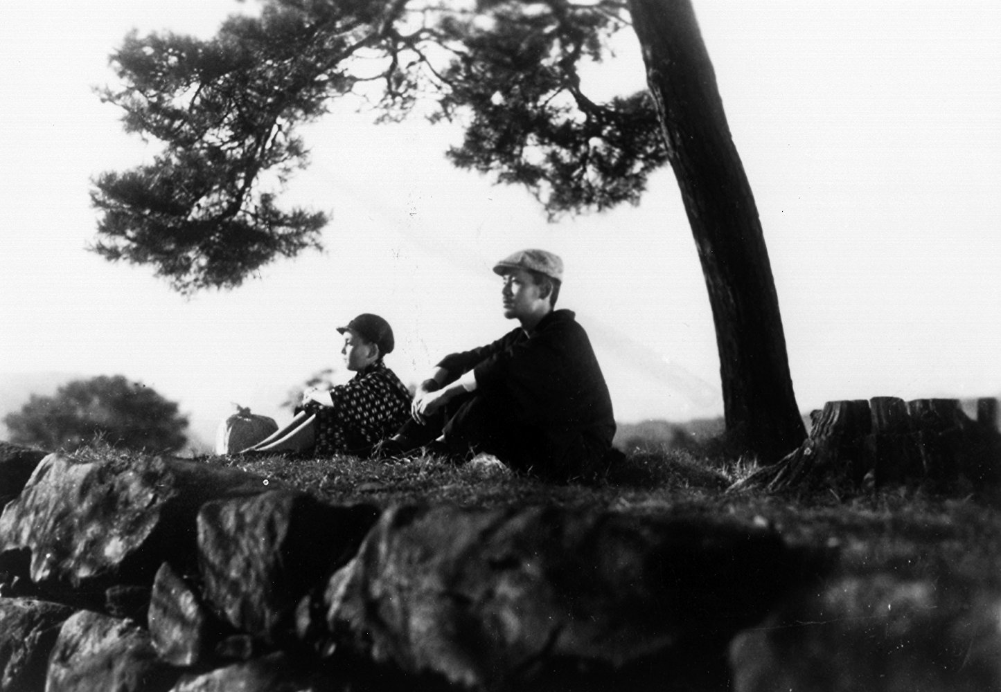 Haruhiko Tsuda and Chishū Ryū in Chichi ariki (1942) directed by Yasujirō Ozu